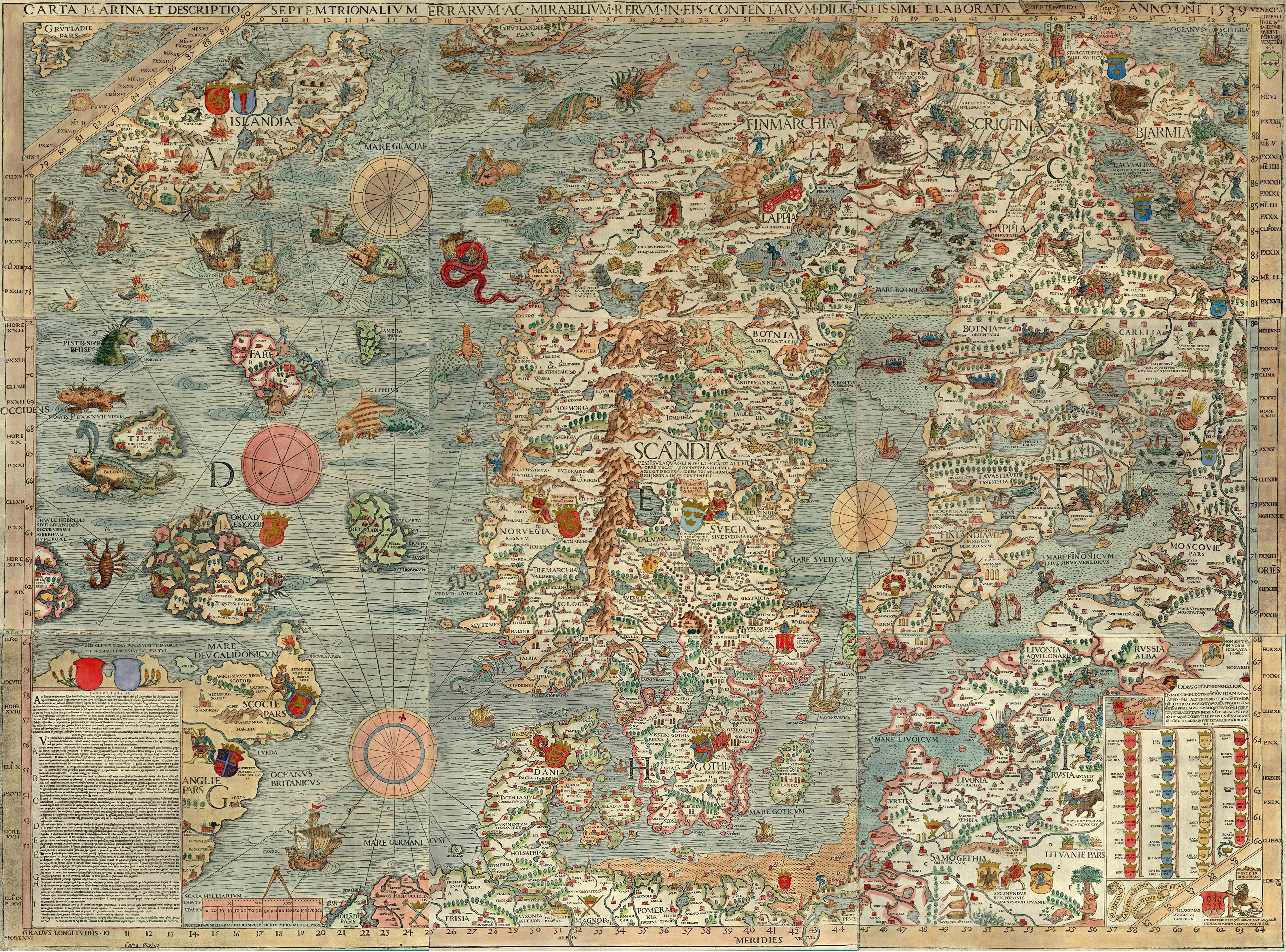 slightly lighter version of Image:Carta_Marina.jpeg. edit by me user debivort, nov 2006